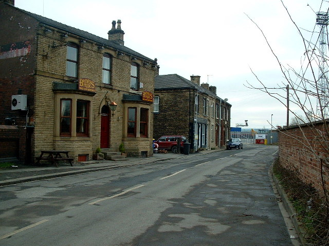 Brewer's Pride Pub and Low Mill Rd Healey. There is also the Ossett Brewery in the Healey and the Ossett Beer Festival takes place annually in the adjoining Brewers' Pride pub.